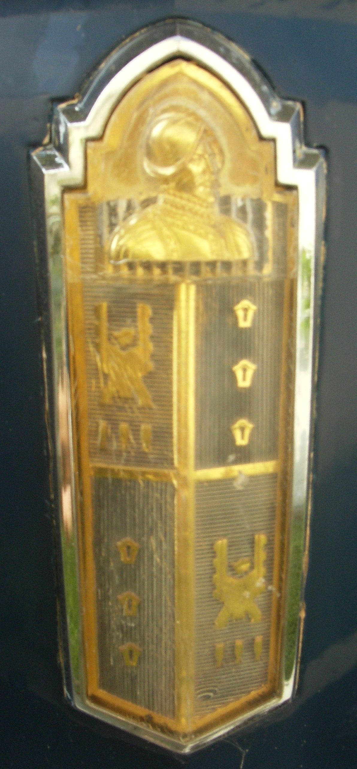 1952 DeSoto Deluxe automobile insignia--front/hood. (Harrisonburg, Virginia)